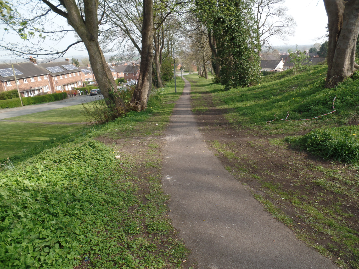 Course of the former Summerhill (eastern) railway inclined plane in Brymbo (2019), looking east from near the head; photograph from 2019